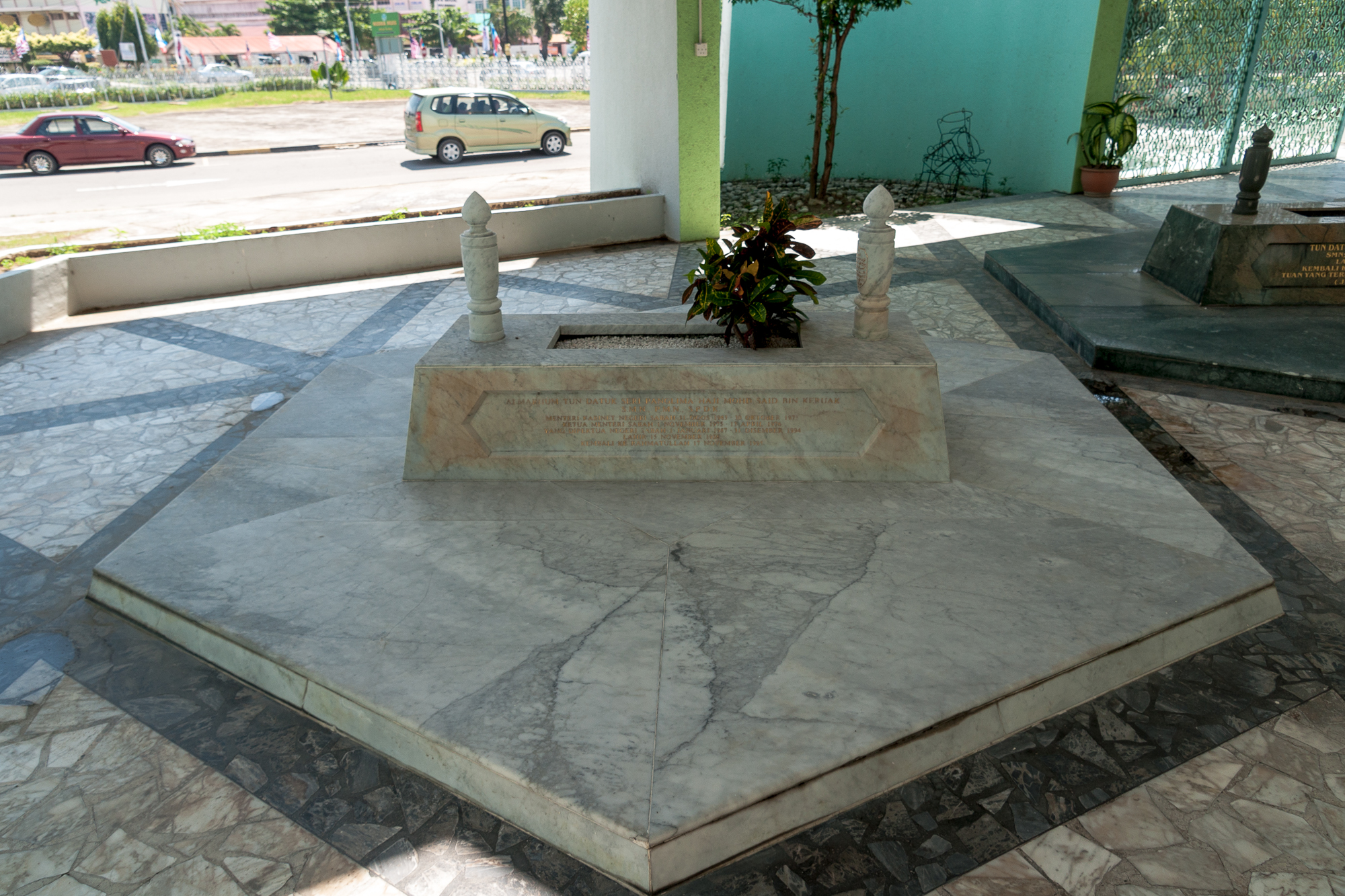 Kotas Kinabalu, Sabah: Tomb of TYT Said bin Keruak in the Sabah State Mausoleum at the northwest corner of Sabah State Mosque